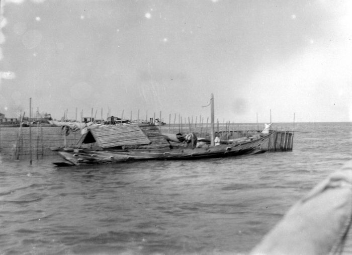 Proa alongside fish trap